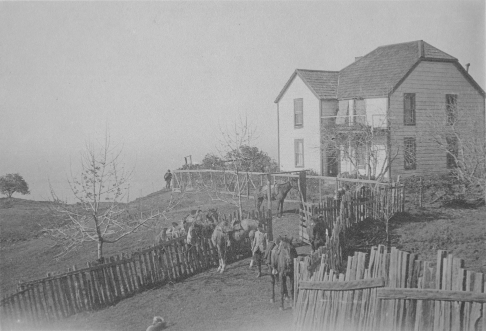 Monterey County Library branch at Lucia, California in 1922